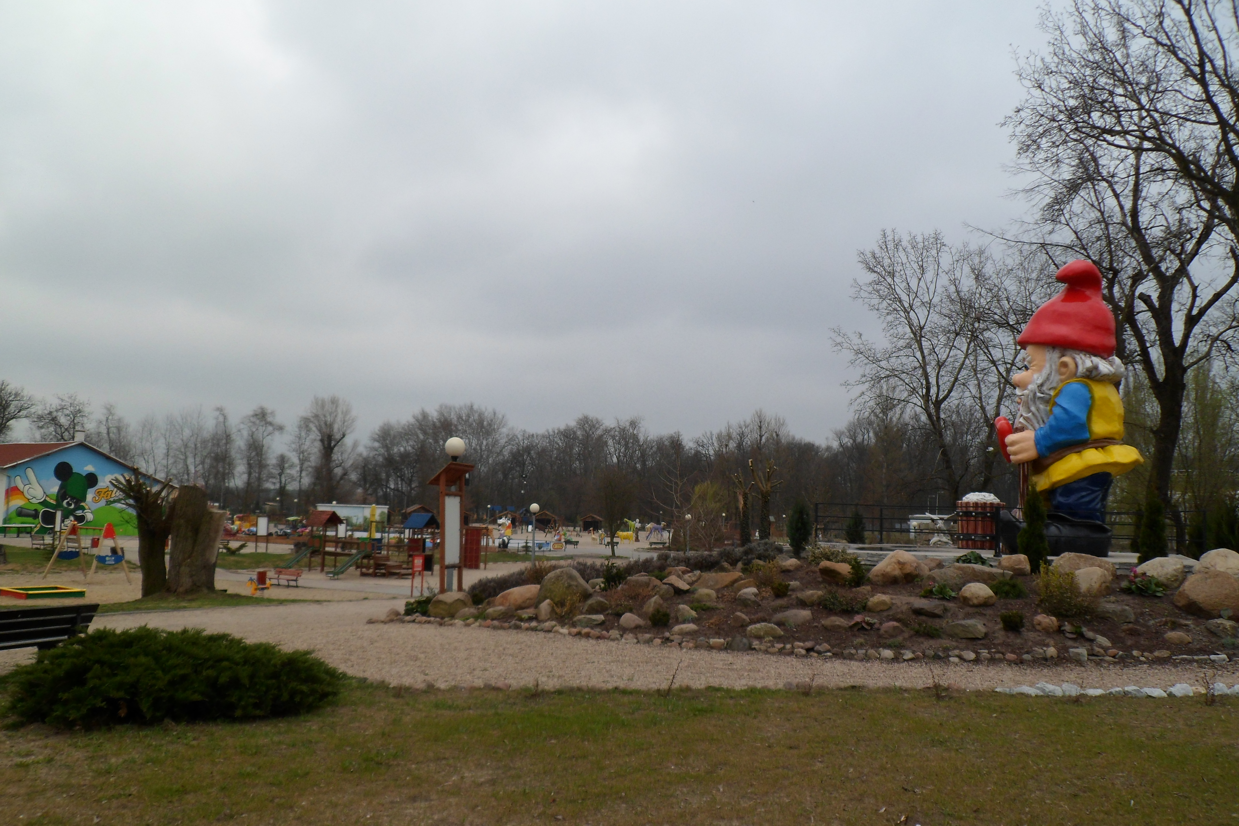 "Gnom's Park" in Nowa Sól, Poland, where is resident the biggest garden gnom of world, recognised by Guinness World Records Book 2009